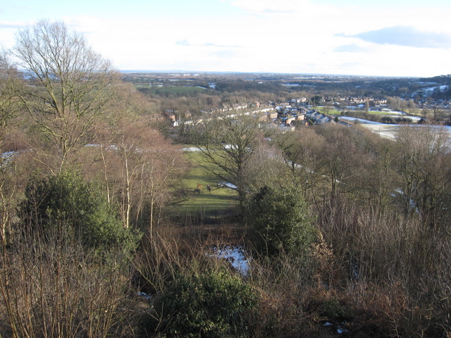 View towards Wrexham from Caergwrle Castle, near to Caergwrle, Flintshire/Sir y Fflint, Great Britain. A commanding view from the ruins of Caergwrle Castle, with the town of Wrexham in the distance on the right.